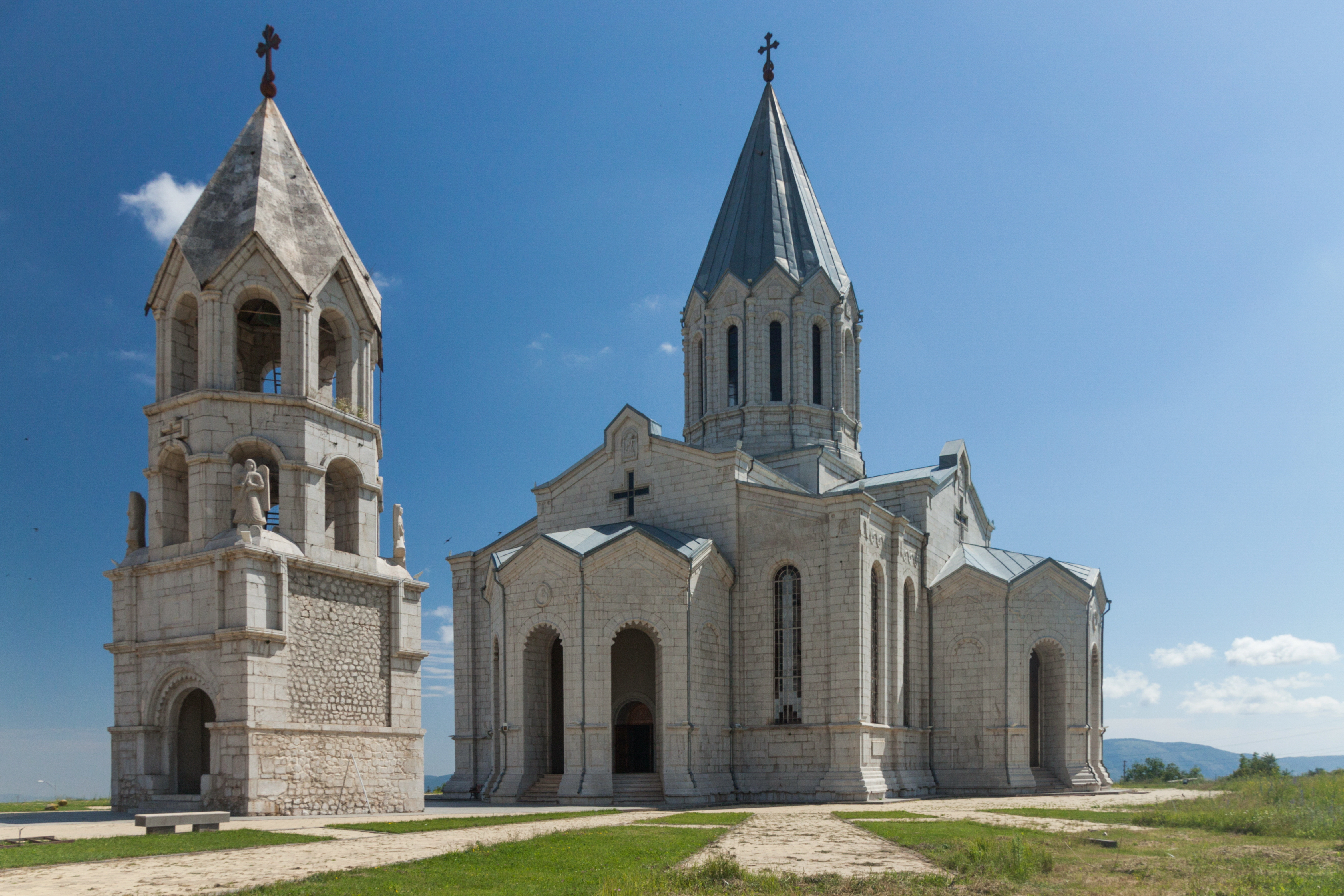 Cathedral of Christ the Holy Savior. Shushi/Shusha, Nagorno-Karabakh.